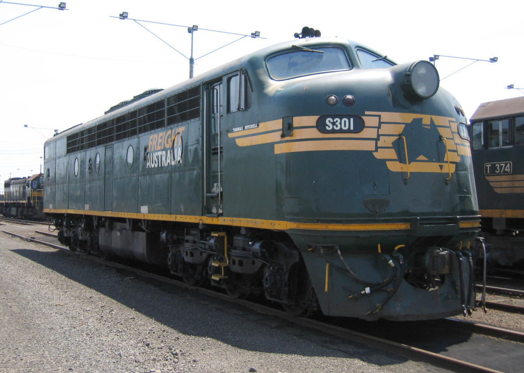 Victorian Railways S class (diesel) S301 in Freight Australia livery at North Geelong, Victoria